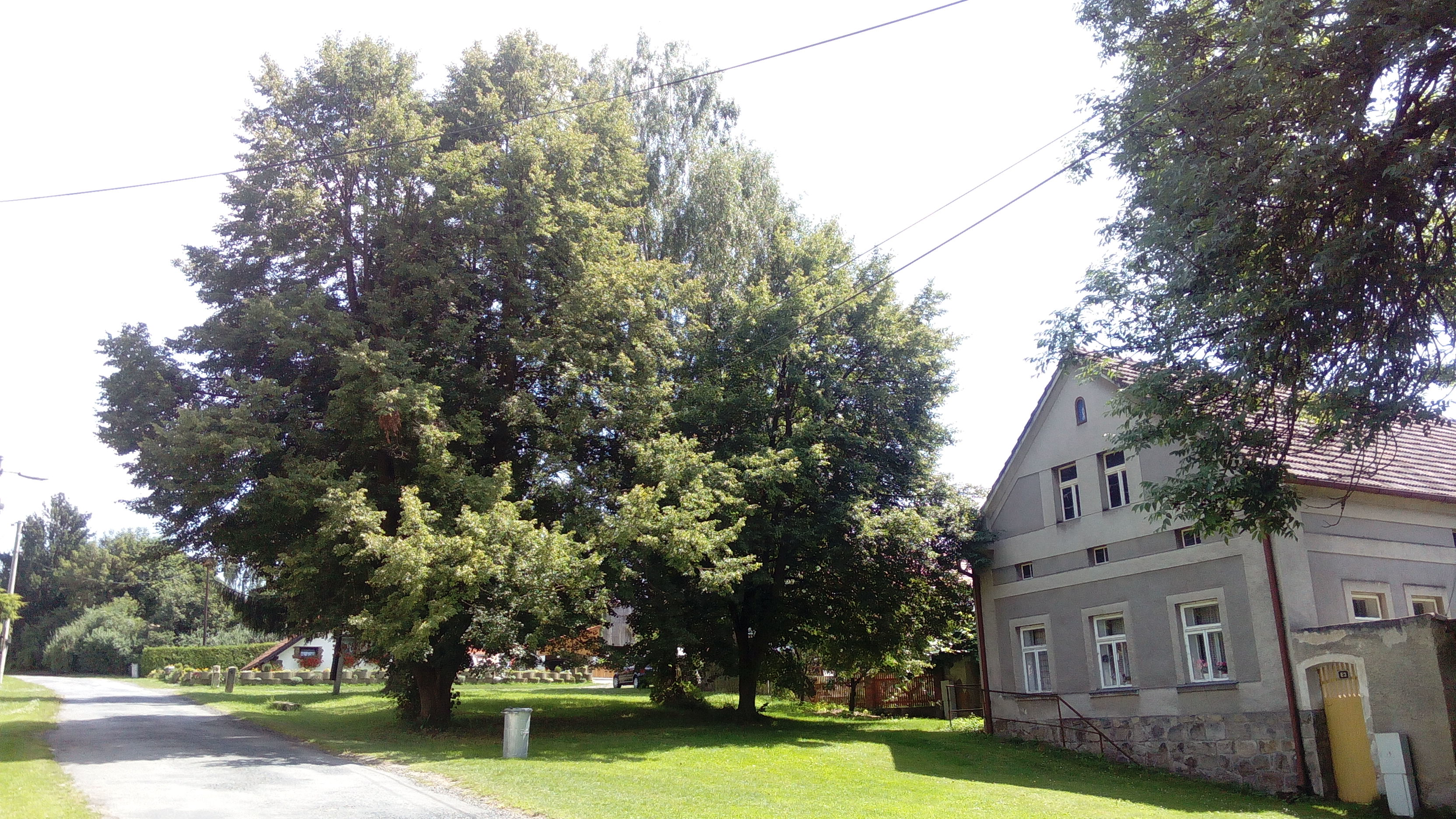 Village green in Horní Valdorf, Horšovský Týn, Domažlice district, Plzeň Region, Czech Republic.